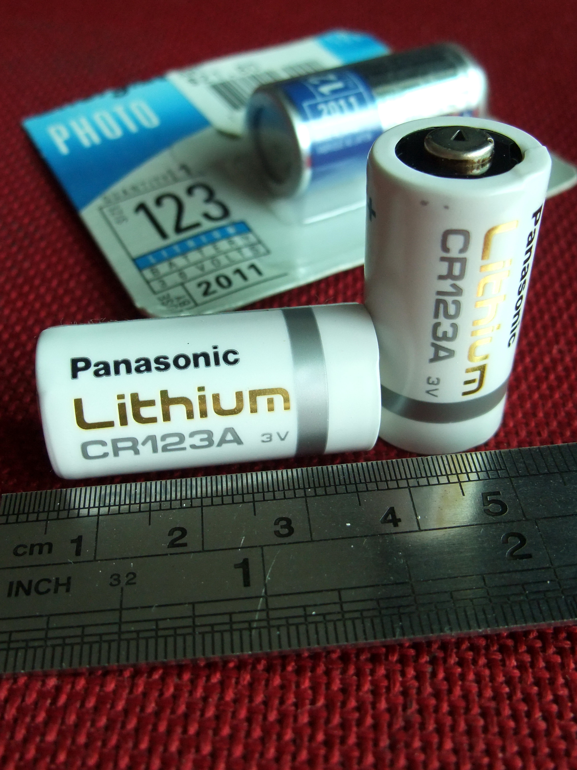 Panasonic CR123A Lithium battery